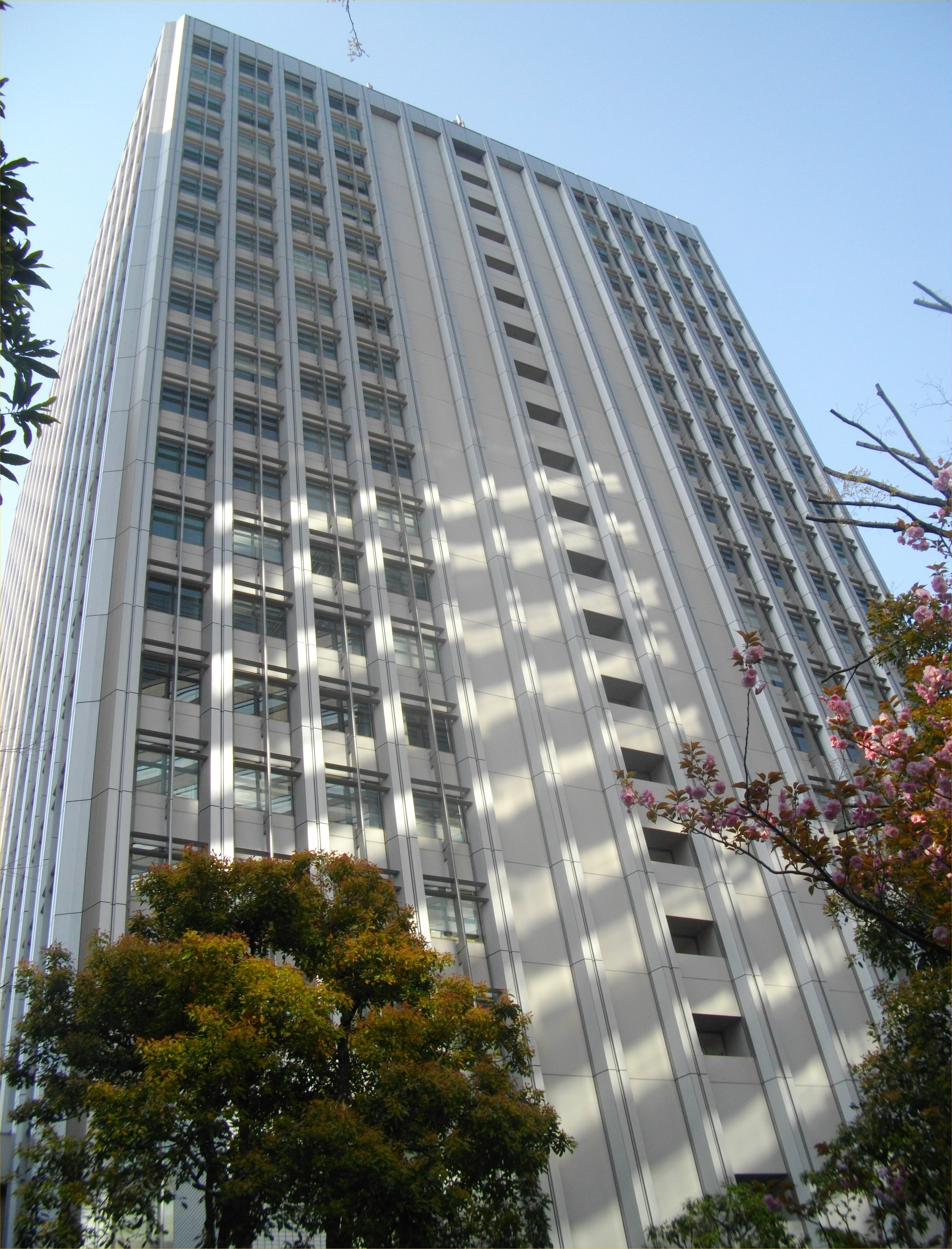 A photo of Ohsaki New City No.3 building(Nissei Building).Osaki,Shinagawa-ku,Tokyo,Japan.